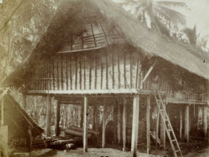 House